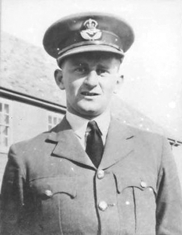 Cecil Hight in RAF uniform